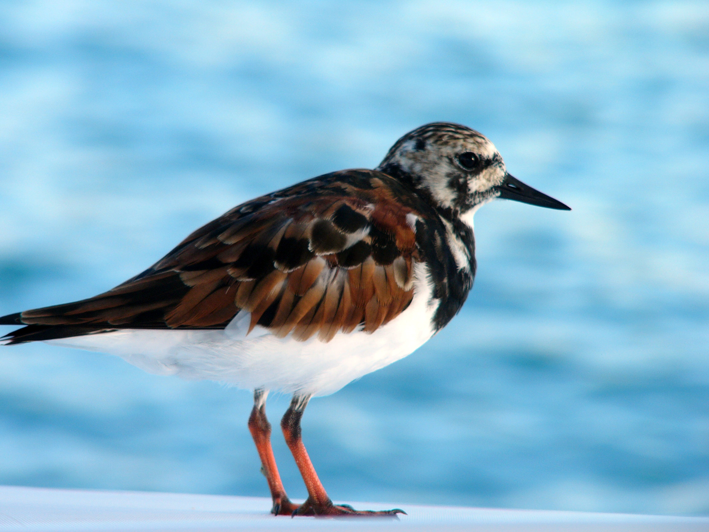 A Ruddy Turnstone perching on a boat in Anegada, British Virgin Islands.